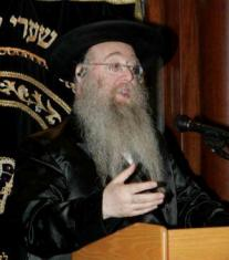 The Nikolsburger Rebbe Holding a Drushe